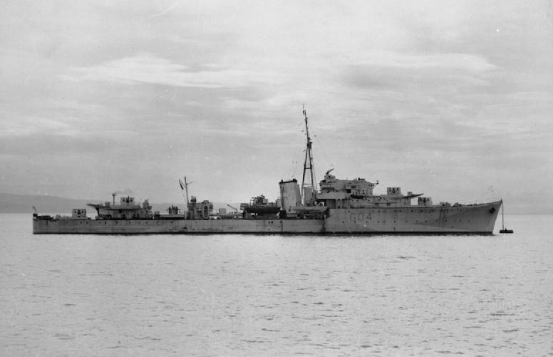 Photograph of British destroyer HMS Onslaught.